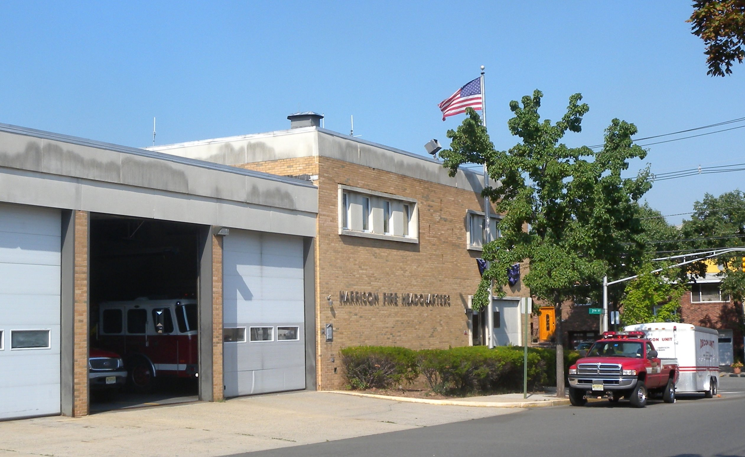 Cropped version.